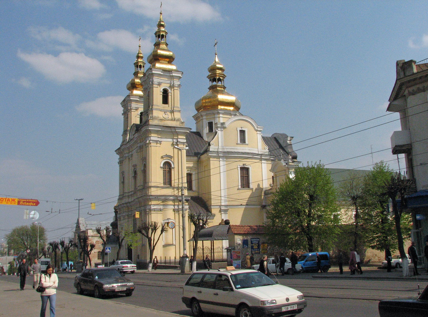 The main orthodox church in Vinnytsia, Ukraine